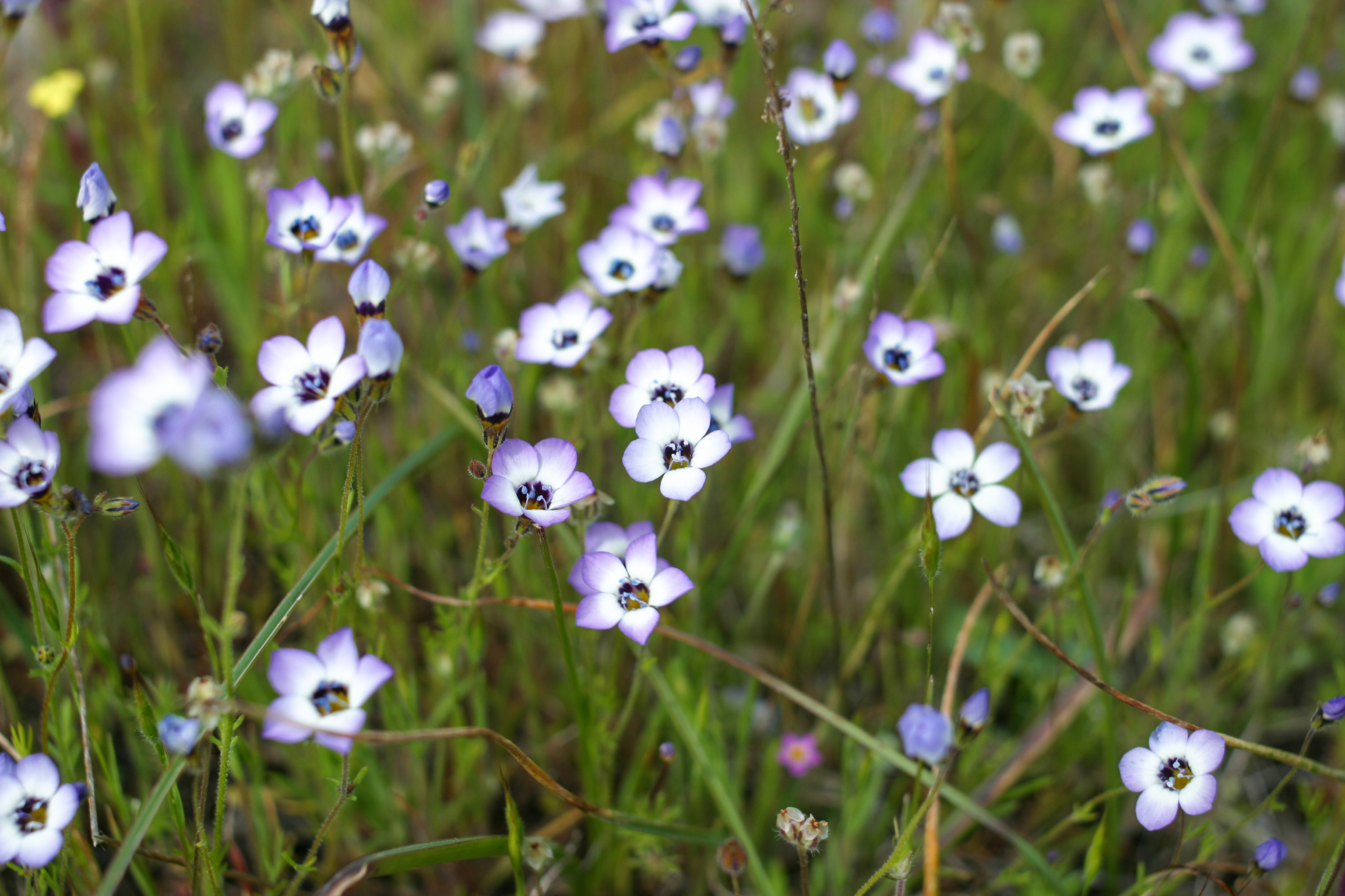 Gilia tricolor, photographed at U.C. McLaughlin Natural Reserve, California, USA